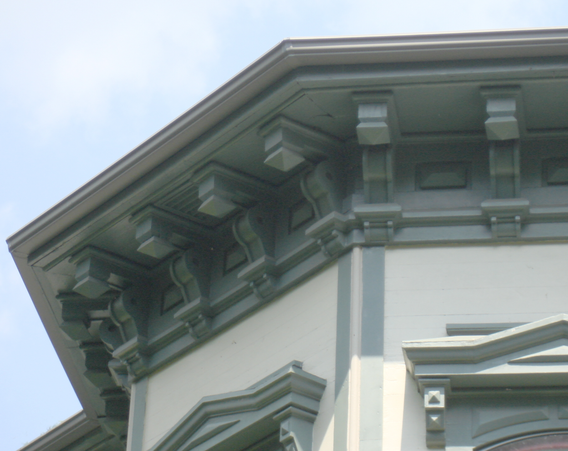 Eave with brackets on a house in Italianate style (Corning, NY)